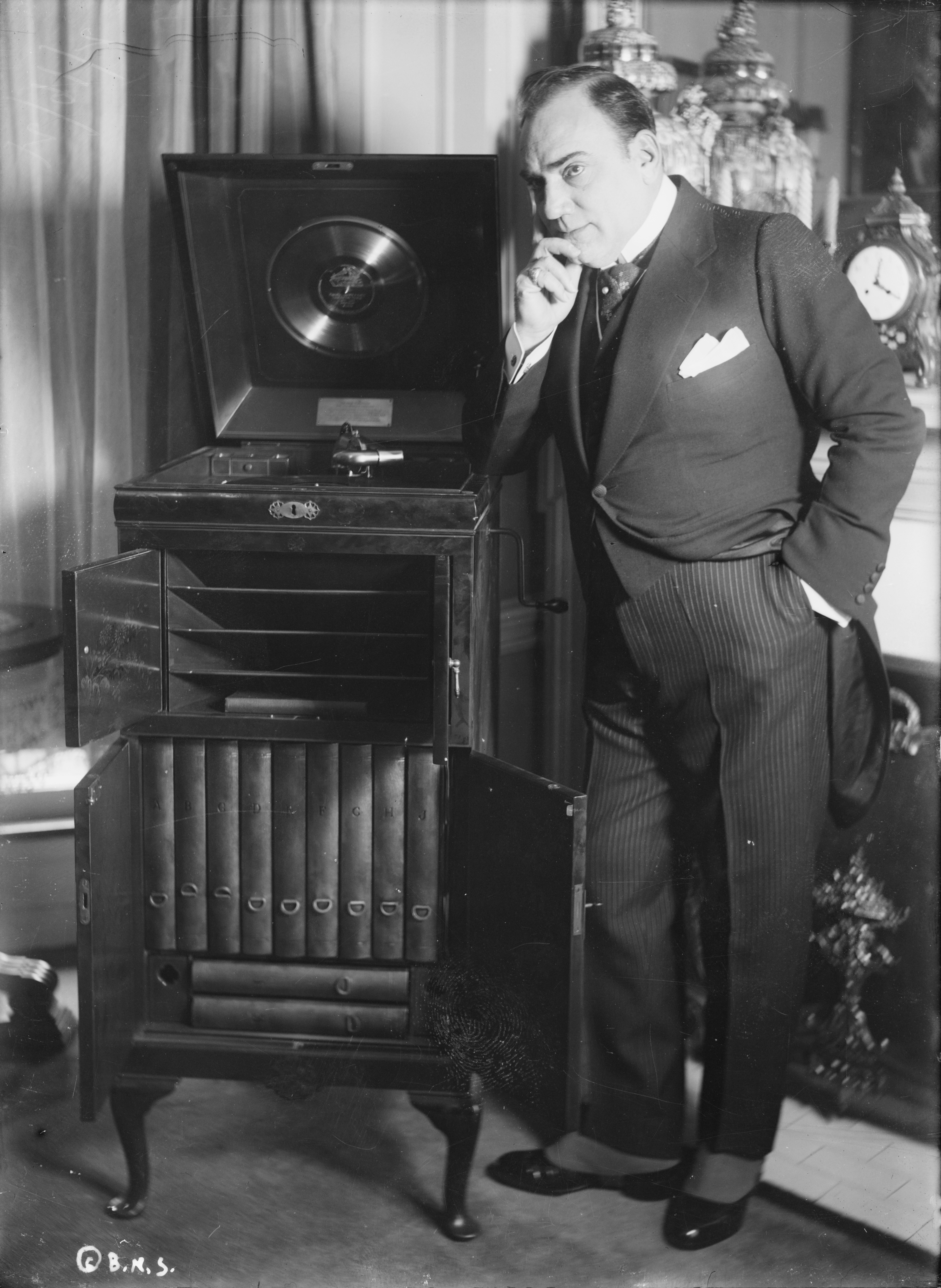 Enrico Caruso with a "Victrola" brand phonograph. Glass negative.